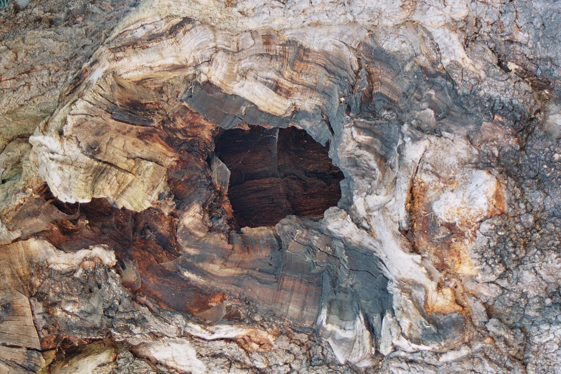 Detail on Crouch Oak tree, Addlestone. Photograph by Ollie Palmer. Taken August 2006. Feel free to use, alter and distribute image as you see fit (image released to public domain).